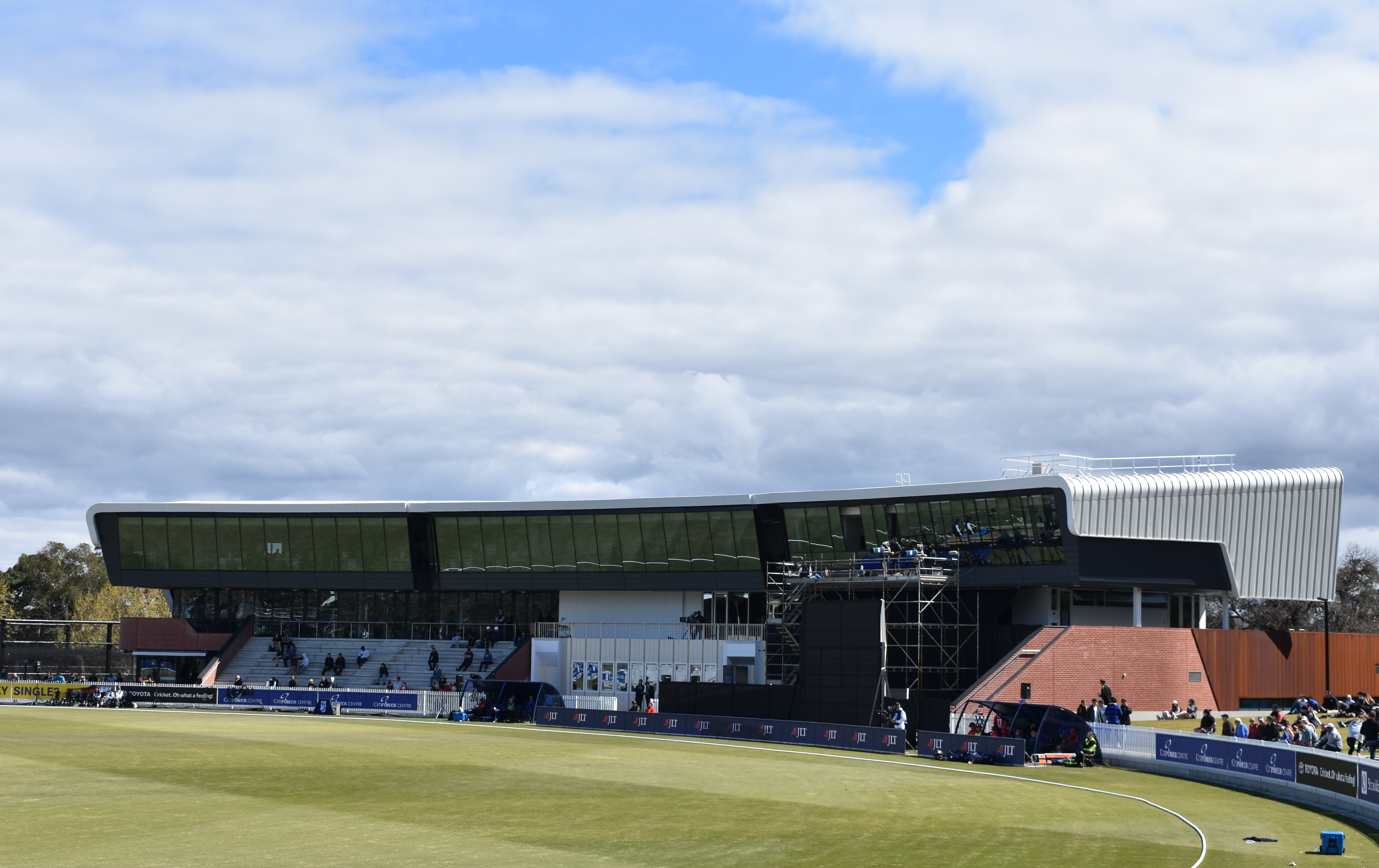 The new stand at the Junction Oval in St. Kilda, Victoria